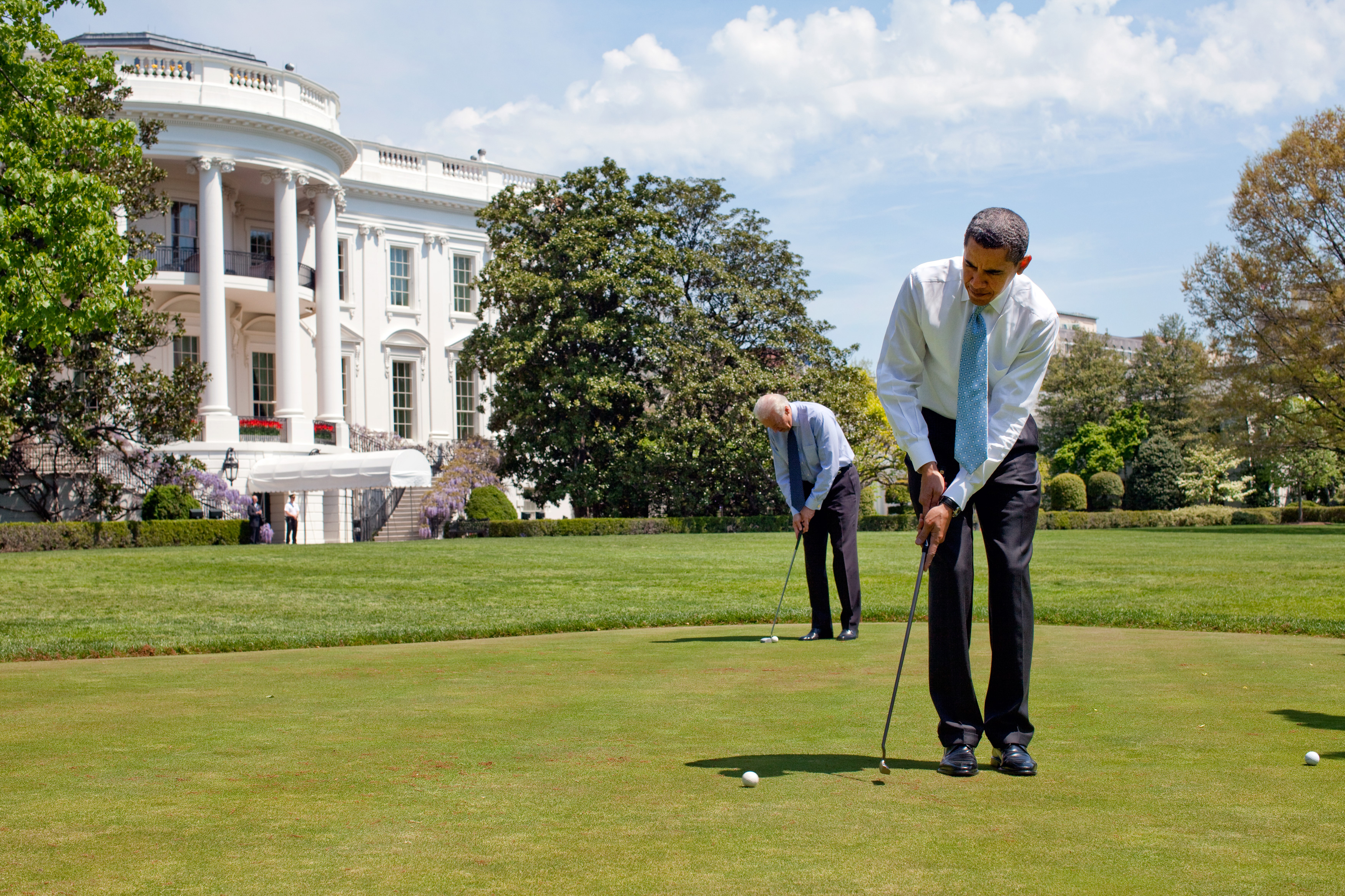 President Barack Obama and Vice President Joe Biden practice their putting on the White House putting green April 24, 2009. Official White House Photo by Pete Souza